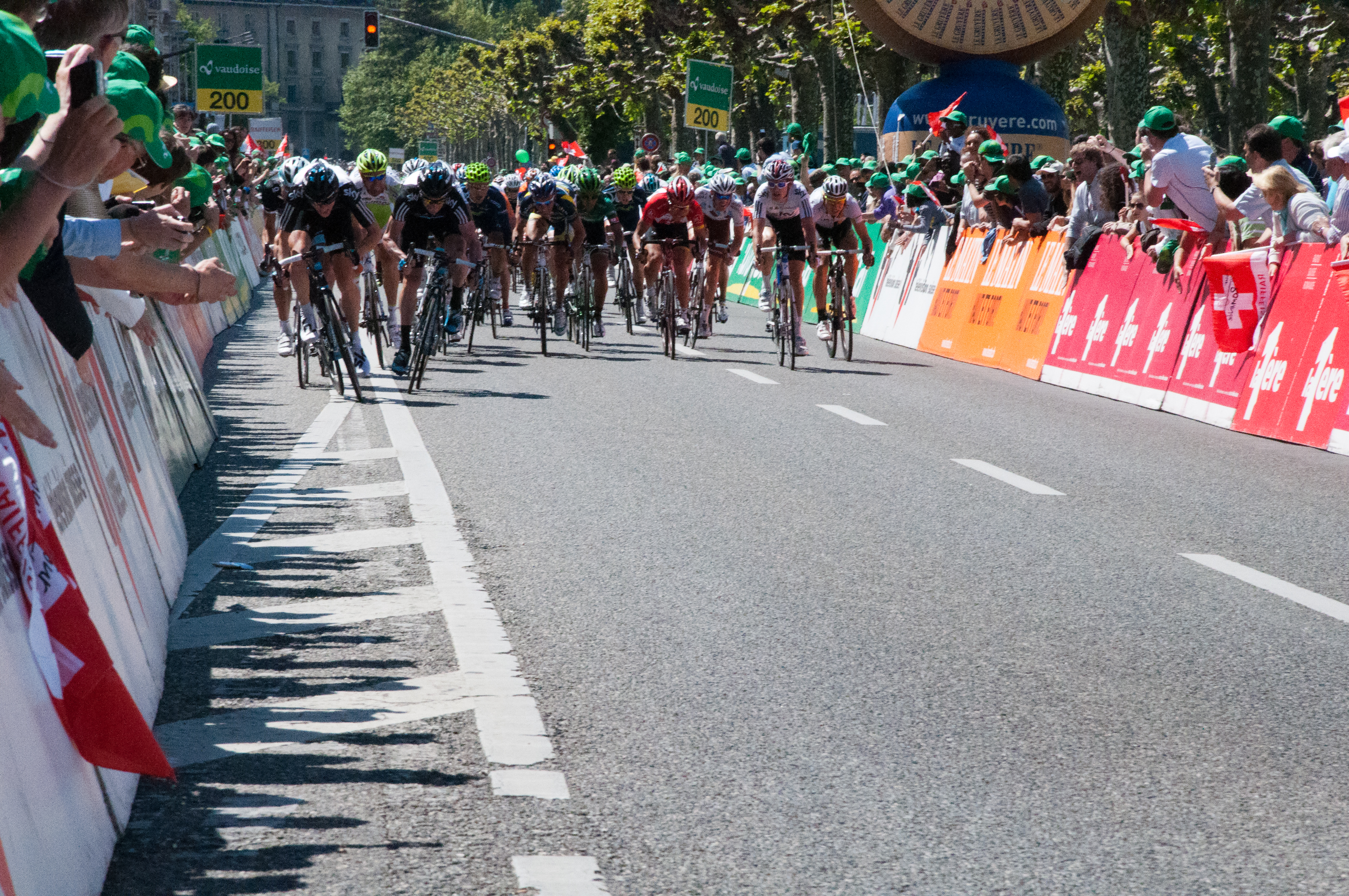 2011 Tour de Romandie, Final sprint of the 5th (and last) stage.